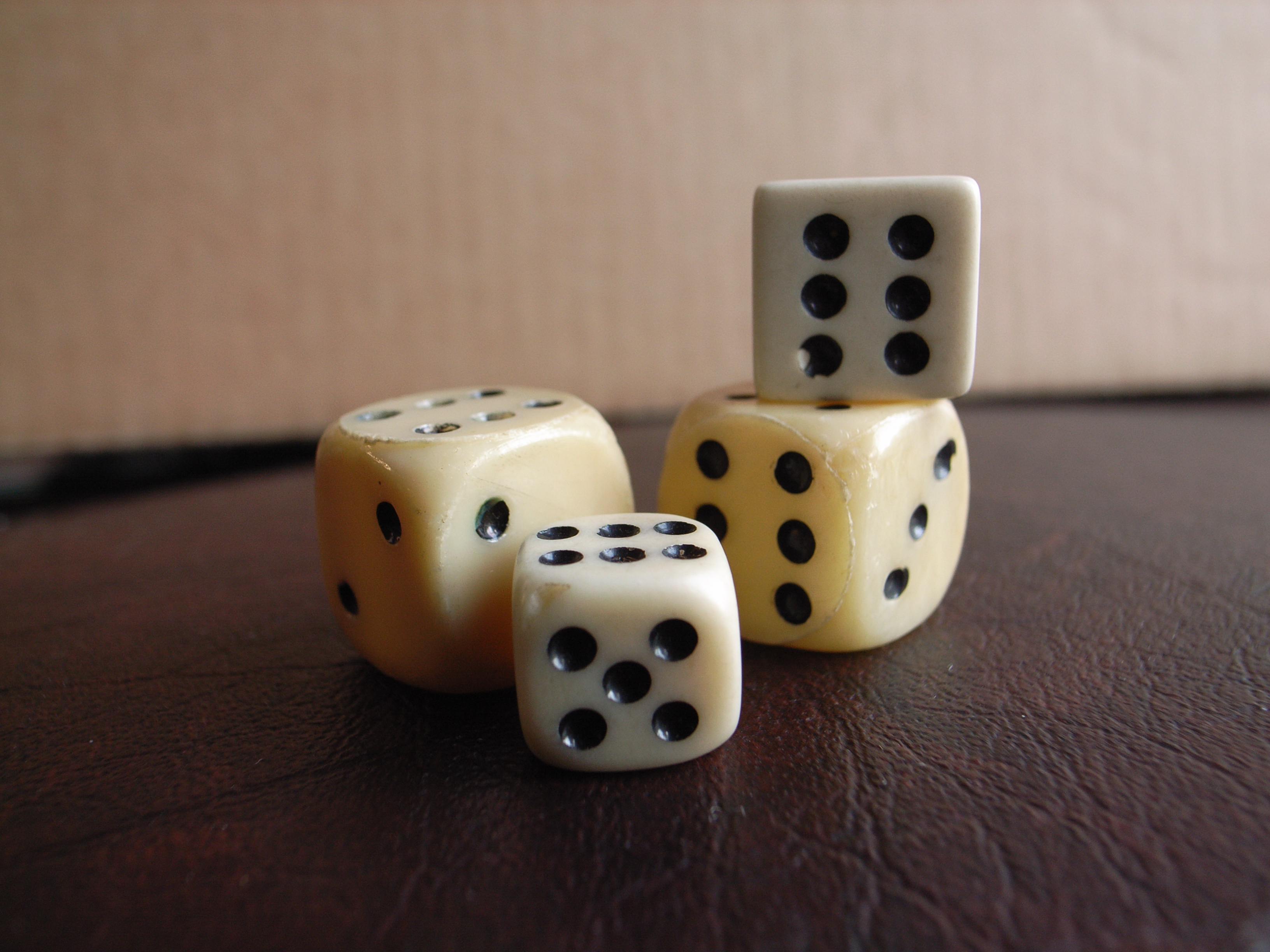 Our life is on dice.